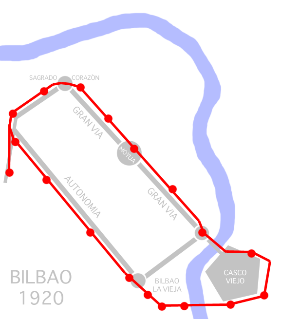 1920 subway project for Bilbao.